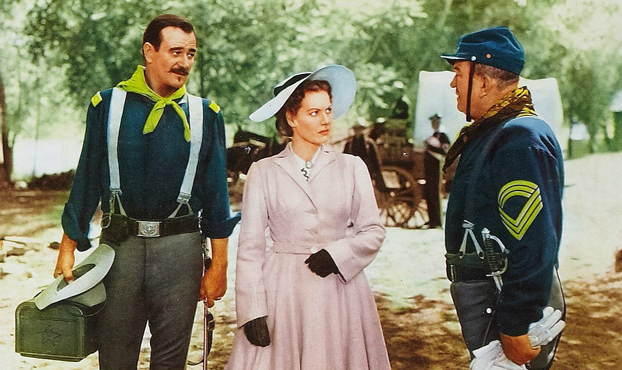 Photo from the film Rio Grande. Pictured are Maureen O’Hara and John Wayne.